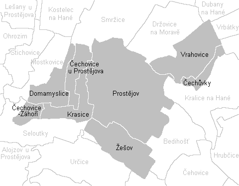 Cadastral map of Prostějov